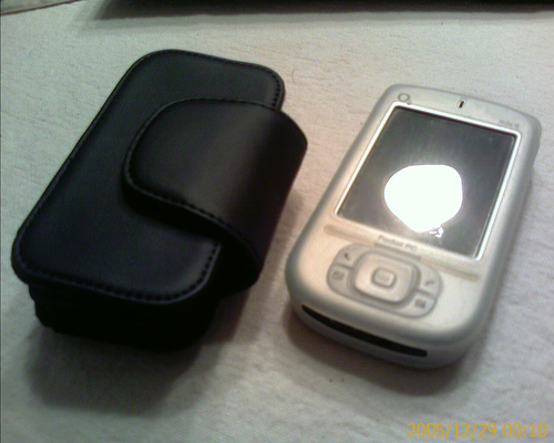 Original caption: "Nothing special, just using my brand new PPC6700 to take a picture. I don't even know if the picture quality is better than those taken using my "old" O2 Mini."